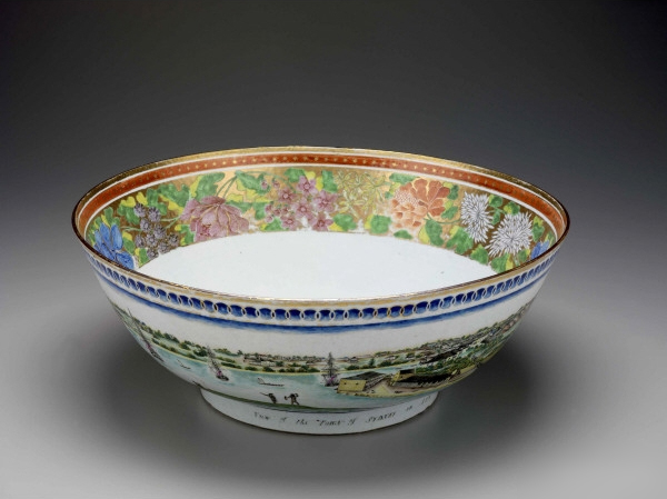 Punchbowl, enamelled porcelain. 17 x 44.8 x 44.8 com. Australian National Maritime Museum Collection. 'View of the town of Sydney in New South Wales', c 1820.